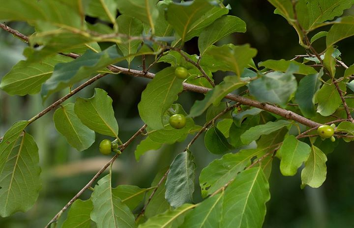 Diospyros squarrosa Klotzsch - Gorongosa National Park, Mozambique